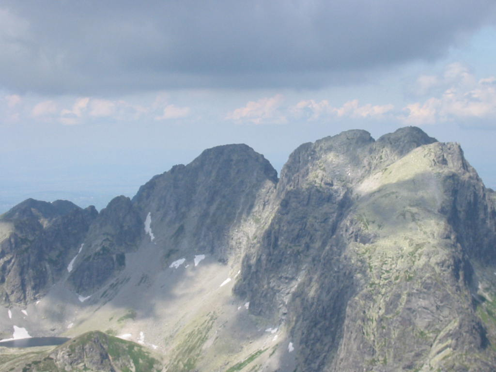 Javorove stity, view from Slavkovsky stit